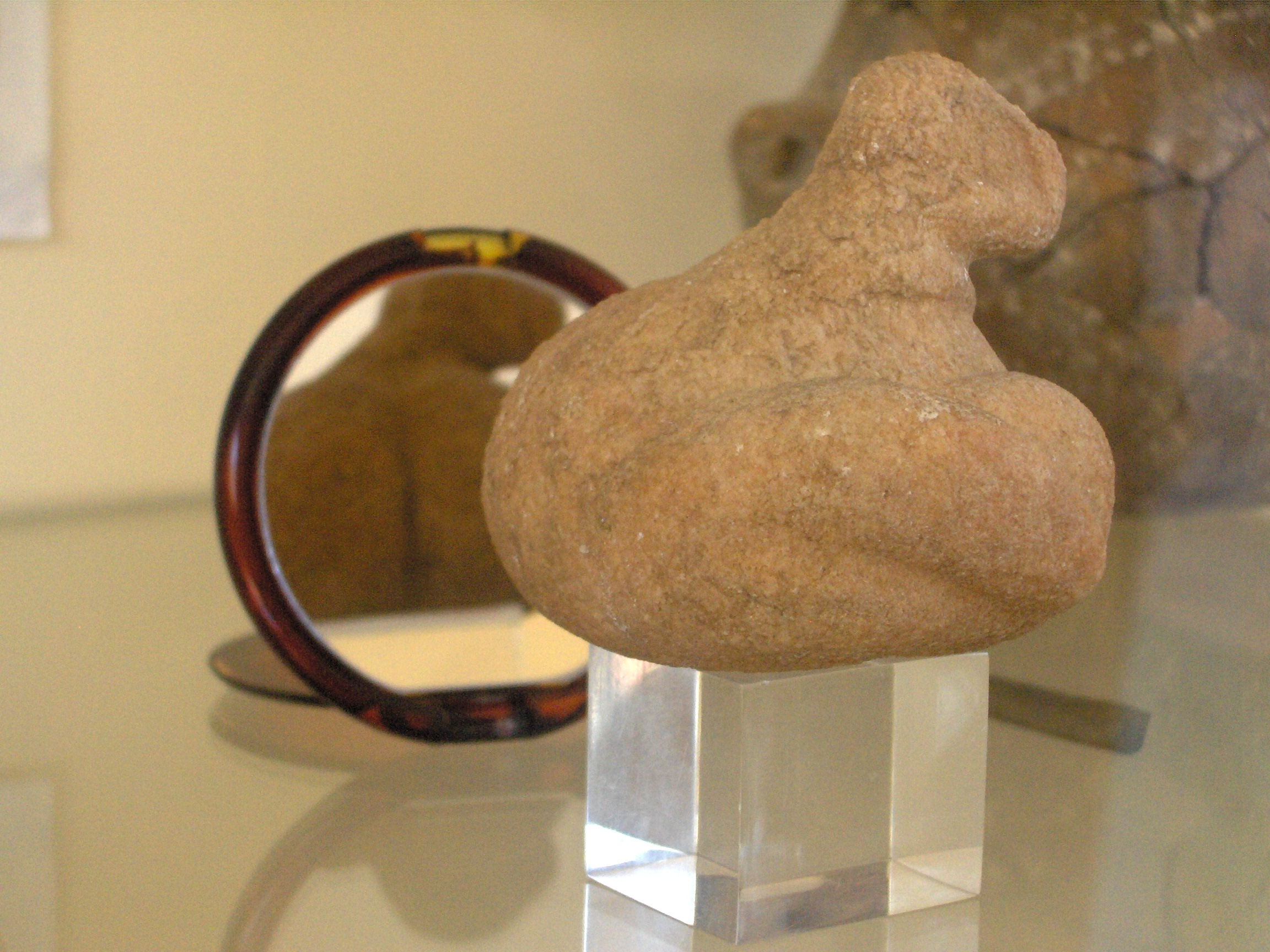 Exhibit at the Archaeological Museum of Paros